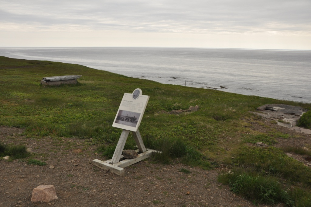 Lighttower, Labrador. Marconi station foundation.